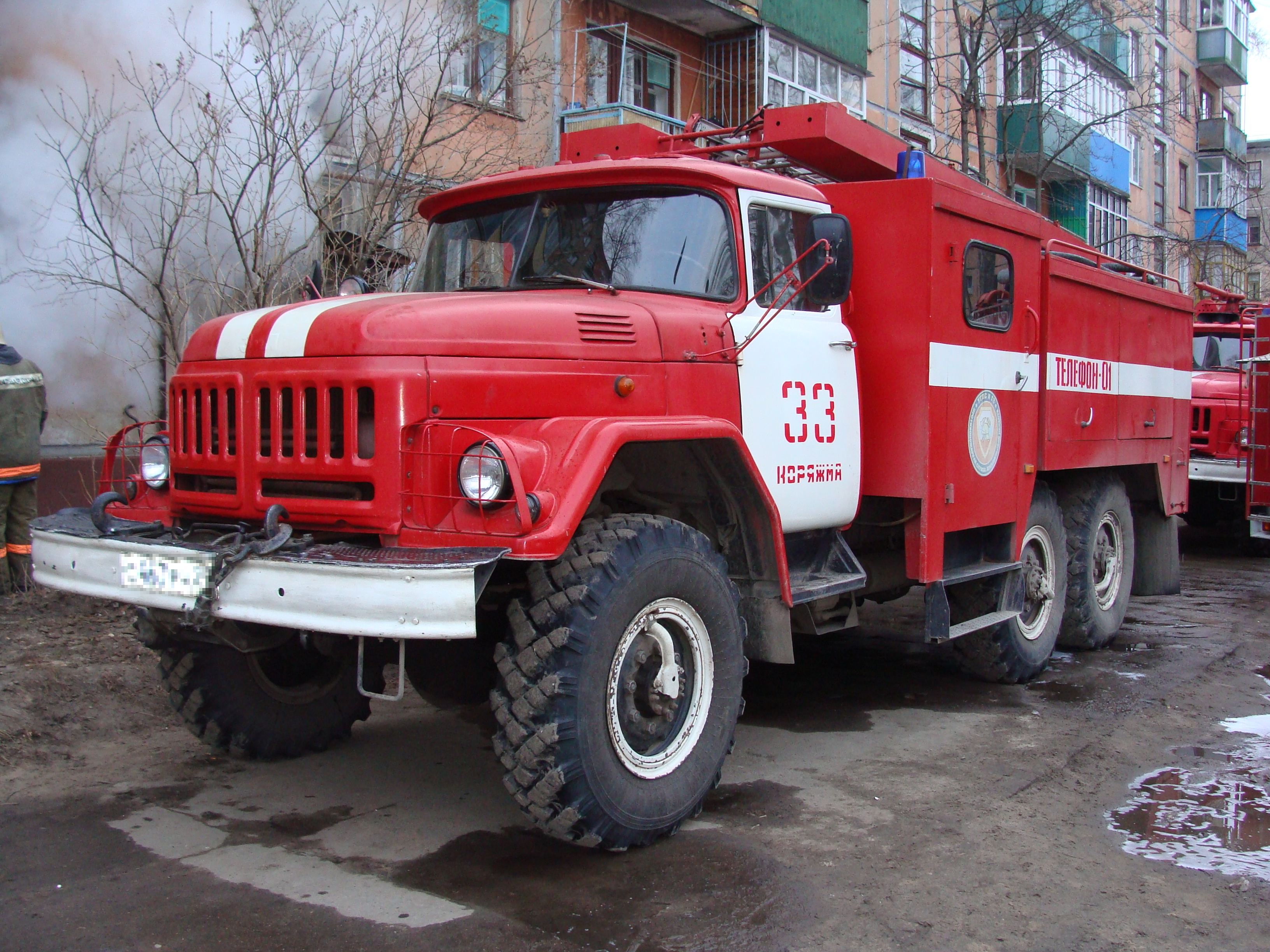 Koryazhma. ZiL-131